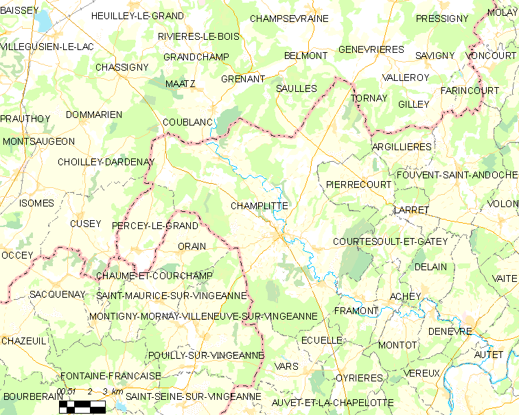 Map of French municipality